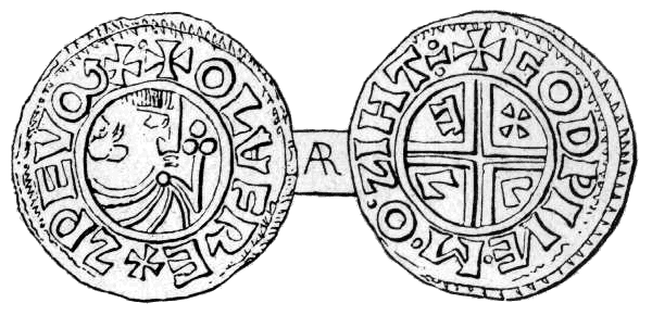 Silver coin made for Olof of Sweden